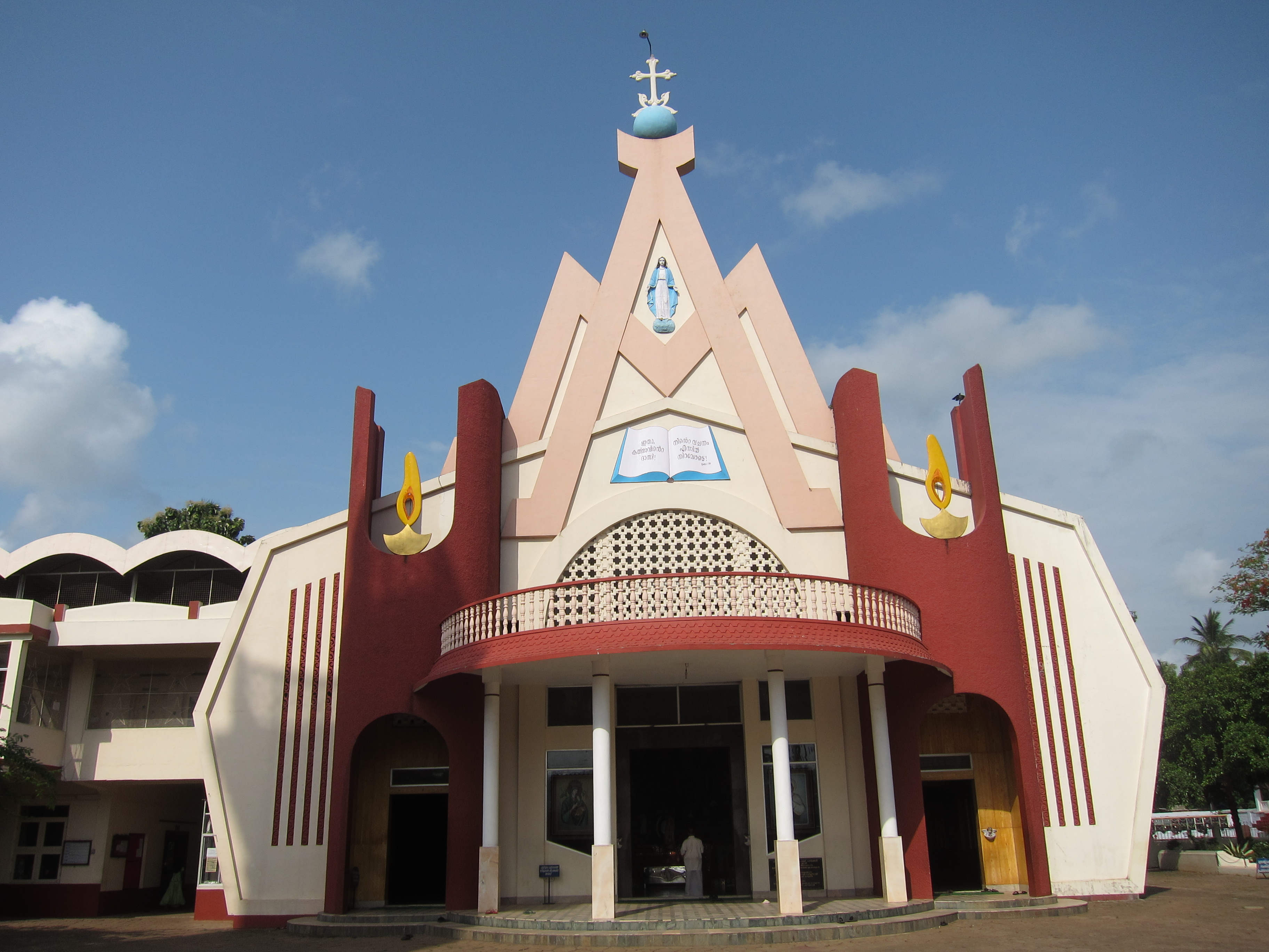 Chalakudy Forane Church St. Mary’s Forane Church, Chalakudy , Thrissur Irinjalakuda Diocese, Thrissur Arch-Diocese Roman Catholic - Syro Malabar